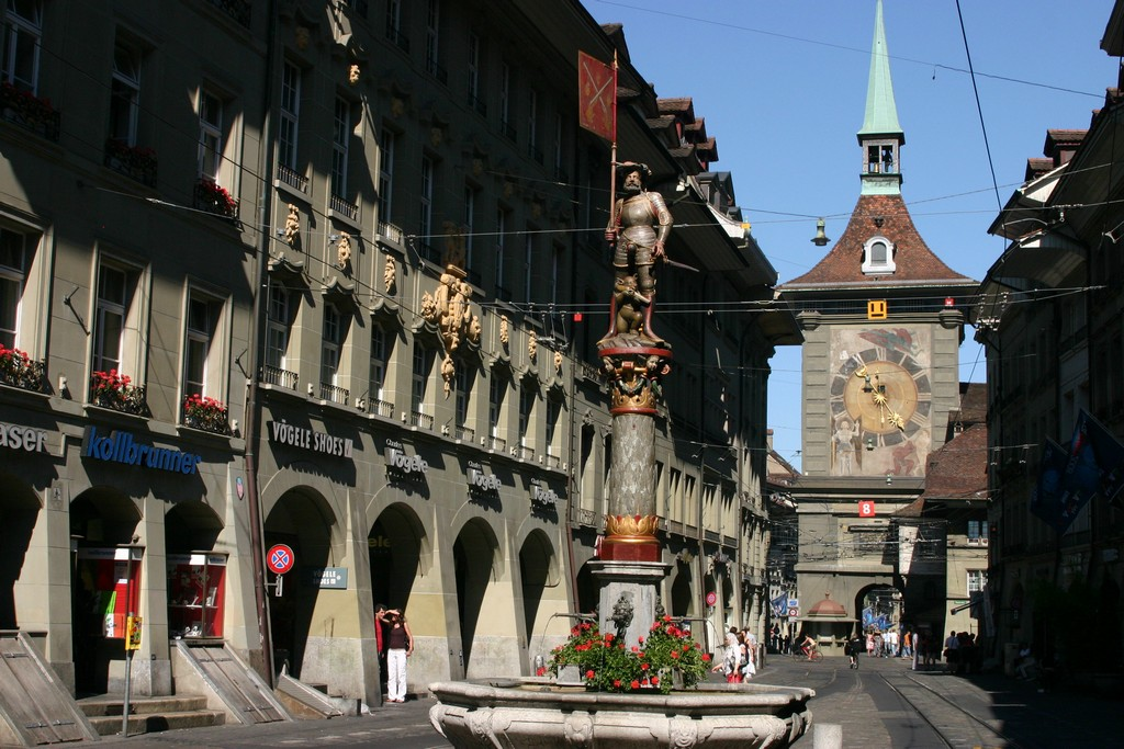 Bern, the capital of Switzerland